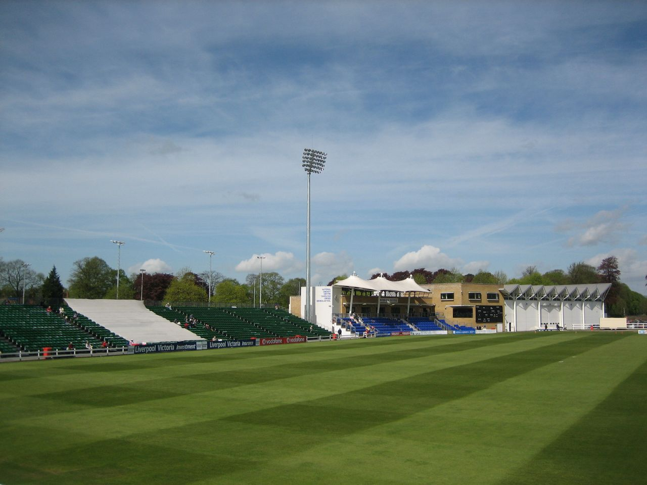 Cathedral Road end of Sophia Gardens, before the redevelopment of the ground, now known as the SWALEC Stadium, Cardiff, Wales.